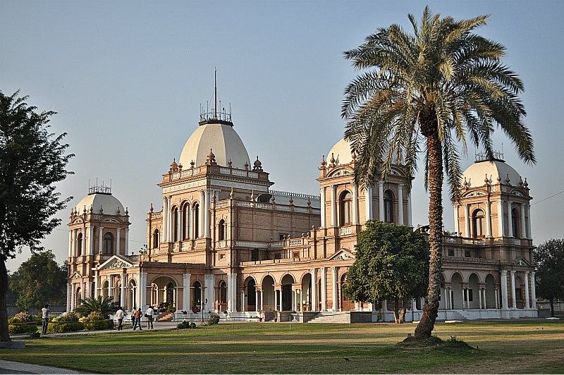 Noor Mahal. Bahawalpur, Pakistan